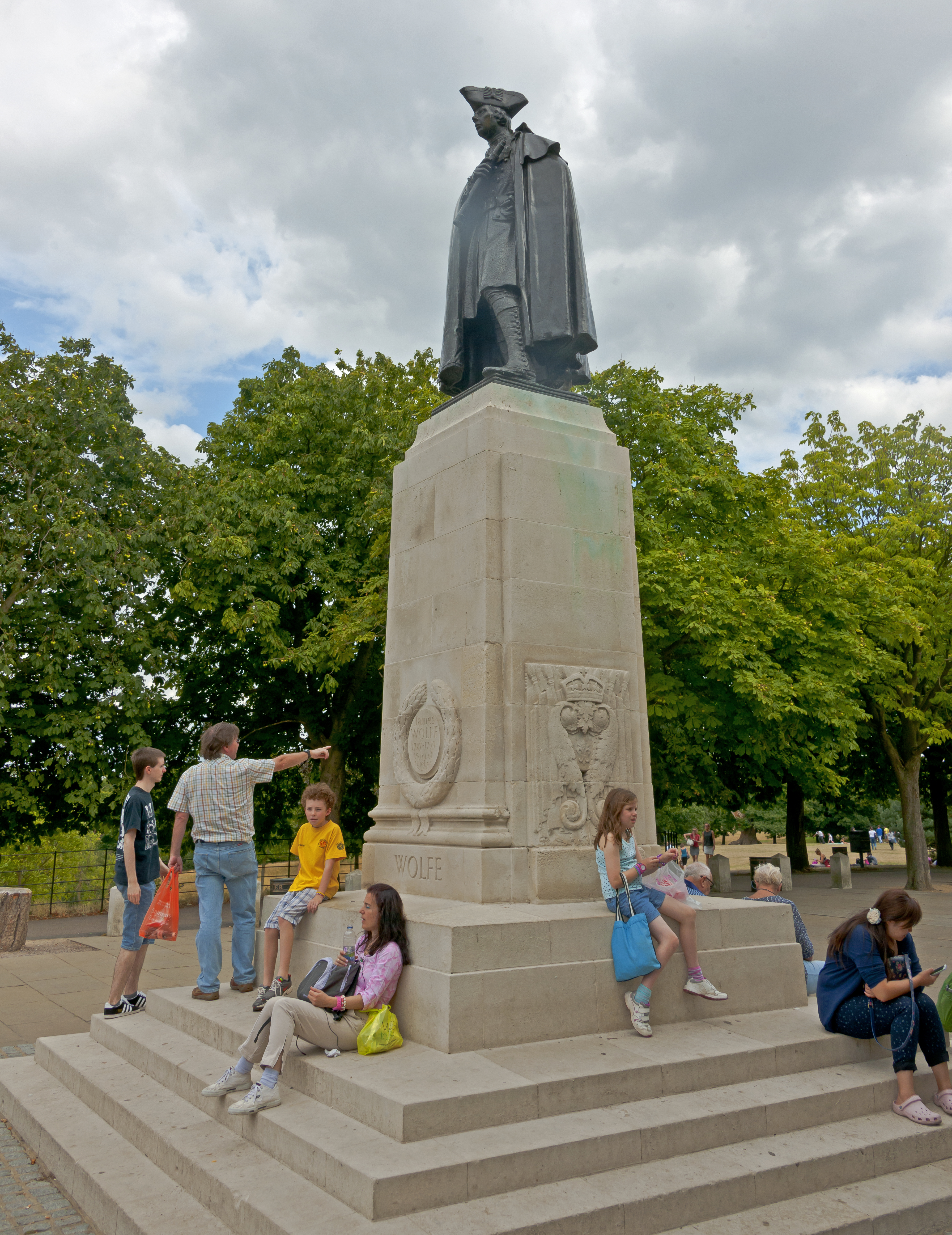 Statue of General James Wolfe in Greenwich Park, London, from which the best views of the city (see here) are available.